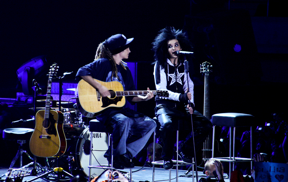 Tokio Hotel in Barcelona.